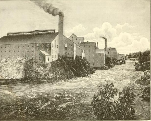 Forest Fibre Company (built in 1877, burnt in 1898) Berlin, New Hampshire